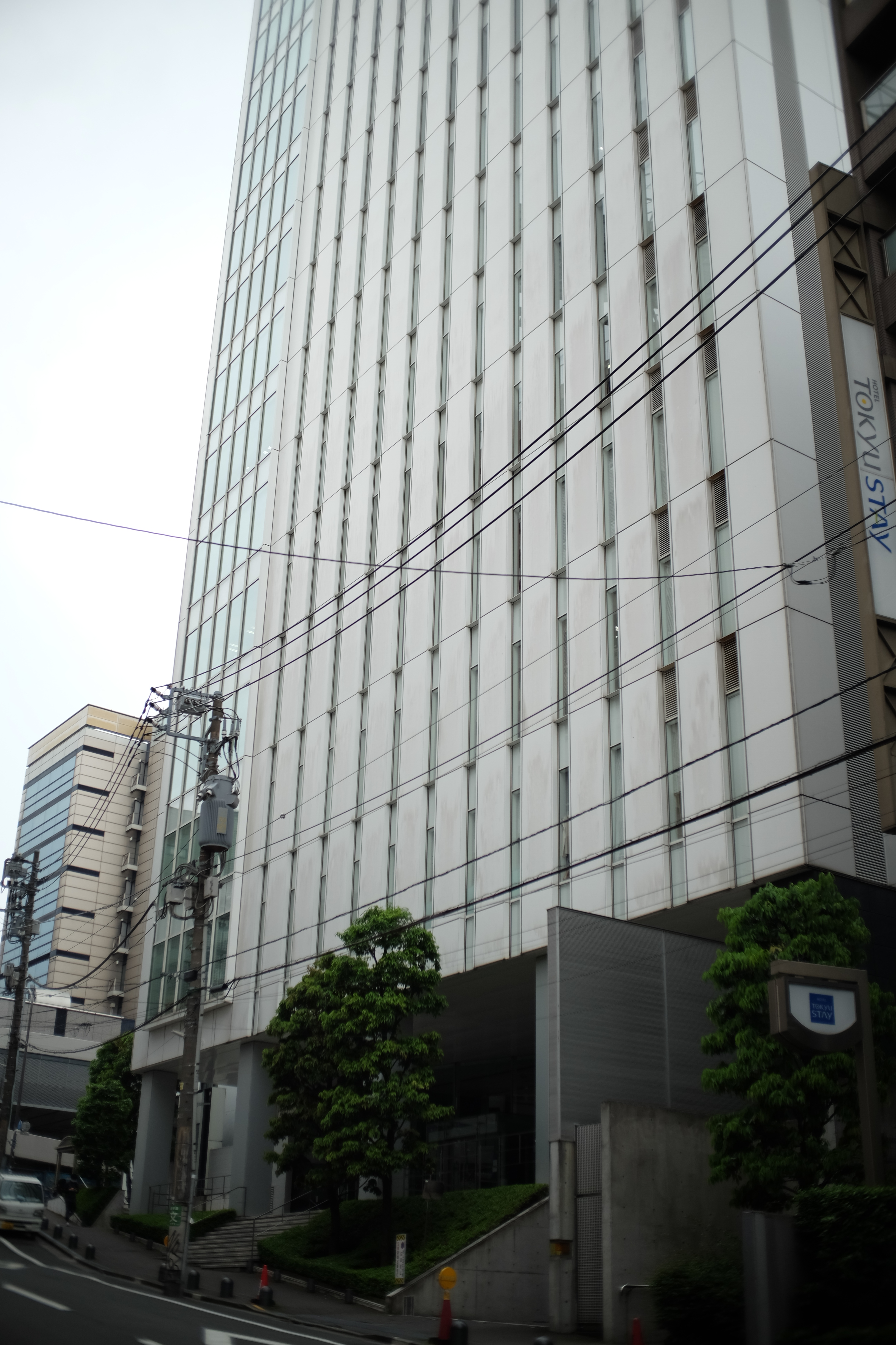 Shibuya First Place (8-16 Shinsencho, Shibuya, Tokyo) shot from an alley by. Own work. Fujifilm X-M1